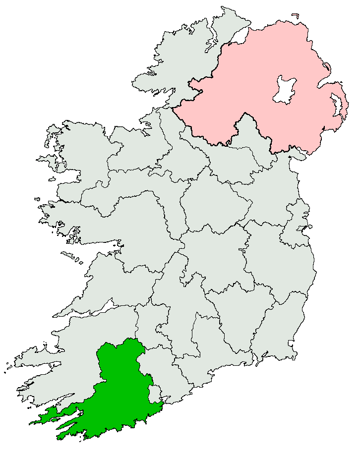 Map depicting the former Irish electoral constituency of Cork Mid, North, South, South East and West, created under the Government of Ireland Act 1920 and abolished under the Electoral Act of 1923.